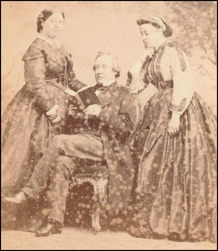 British civil engineer and Liberal Party politician John Robinson McClean, wife Anna M. Newsam and their eldest daughter Mary Hall (Minnie) McClean